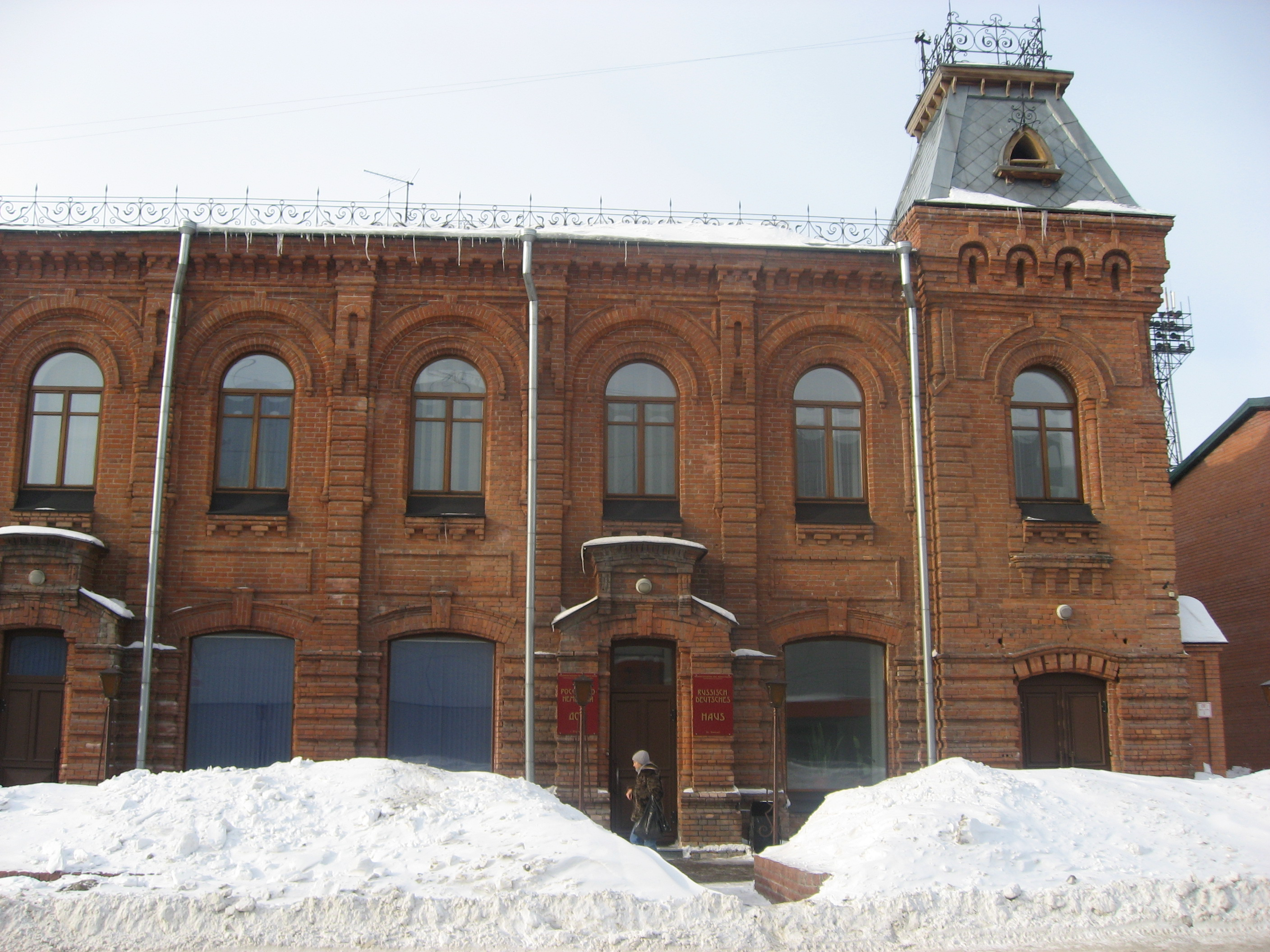 Russian-German House in Barnaul